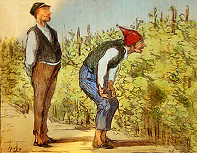 End of oidium by Daumier